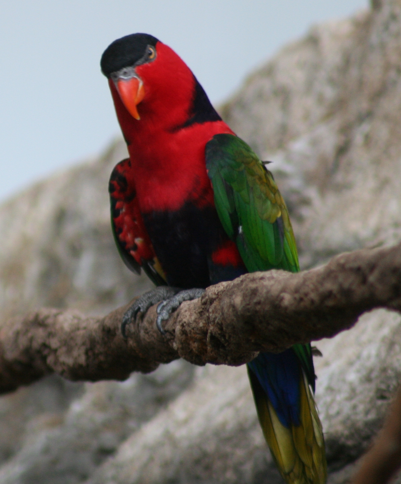 Black-capped Lory at Newport Aquarium.